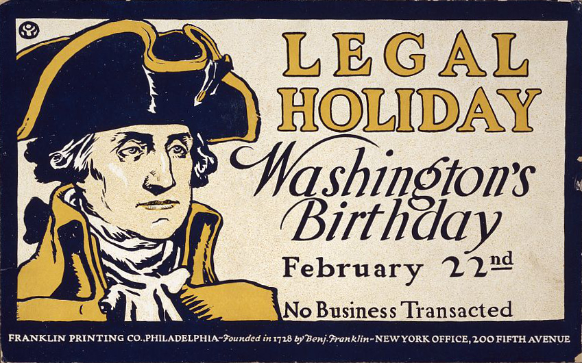 A poster letting people know that no business will be conducted on Washington's Birthday (then celebrated on February 22).